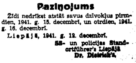 Warning to Jews of Liepāja (German: LIbau), in Latvian language, to remain in their residences on Monday December 15 and December 16, 1941. This was preparation the murder of these people on mass shootings on December 15, 16, and 17, 1941.